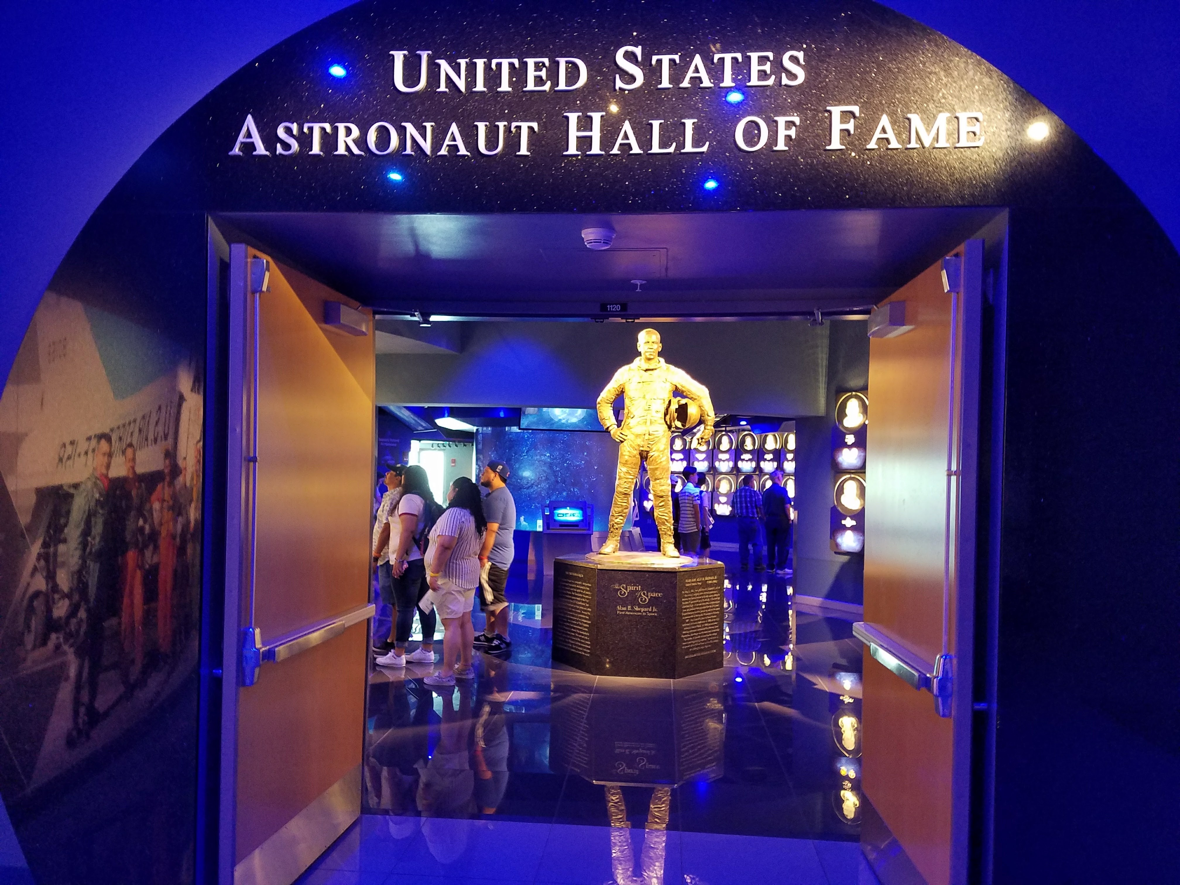 This Statue of Alan Shepard is located inside the United States Astronaut Hall of Fame at Kennedy Space Center Visitor Complex